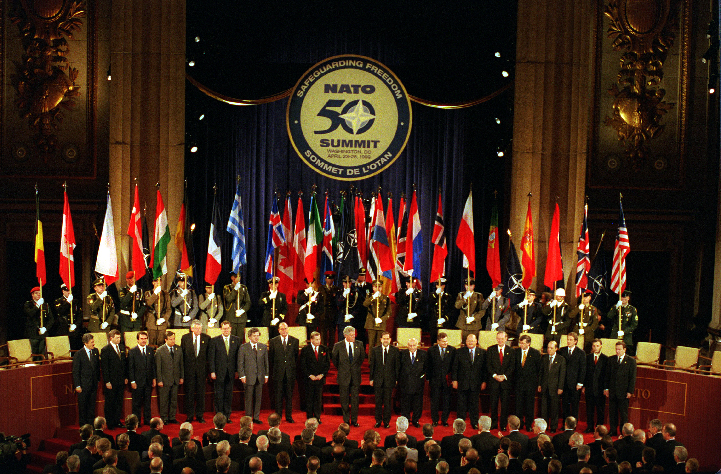 Representatives of the 19-member NATO nations stand for a group photograph during the commemorative ceremony of the 50th anniversary of NATO held at the Andrew W. Mellon Auditorium (AWMA), Washington, D.C., USA on April 23, 1999.